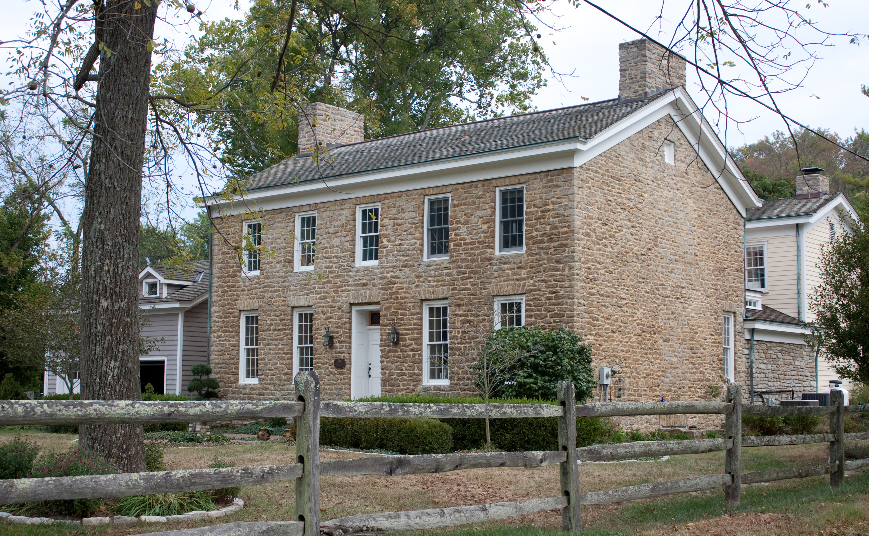 Elliot House in Symmes Township Photo by Greg Hume.